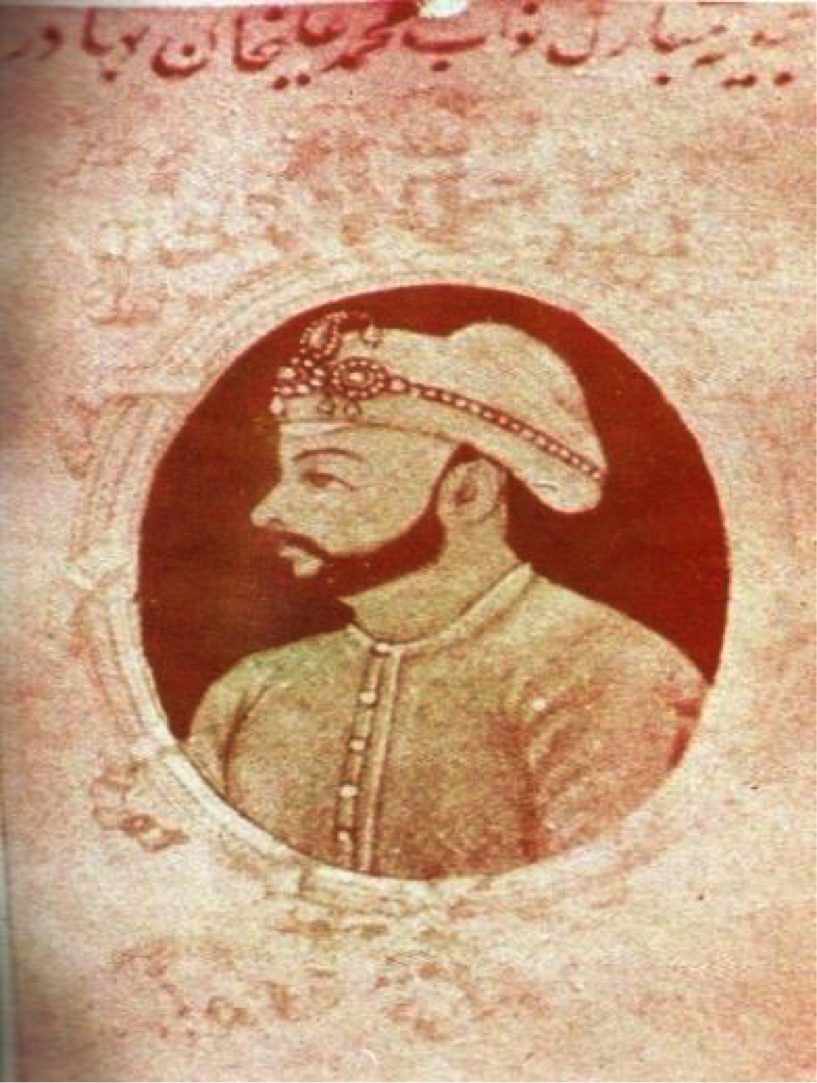 Portrait of Nawab Sayyid Muhammad Ali Khan Bahadur Rohilla of Rampur